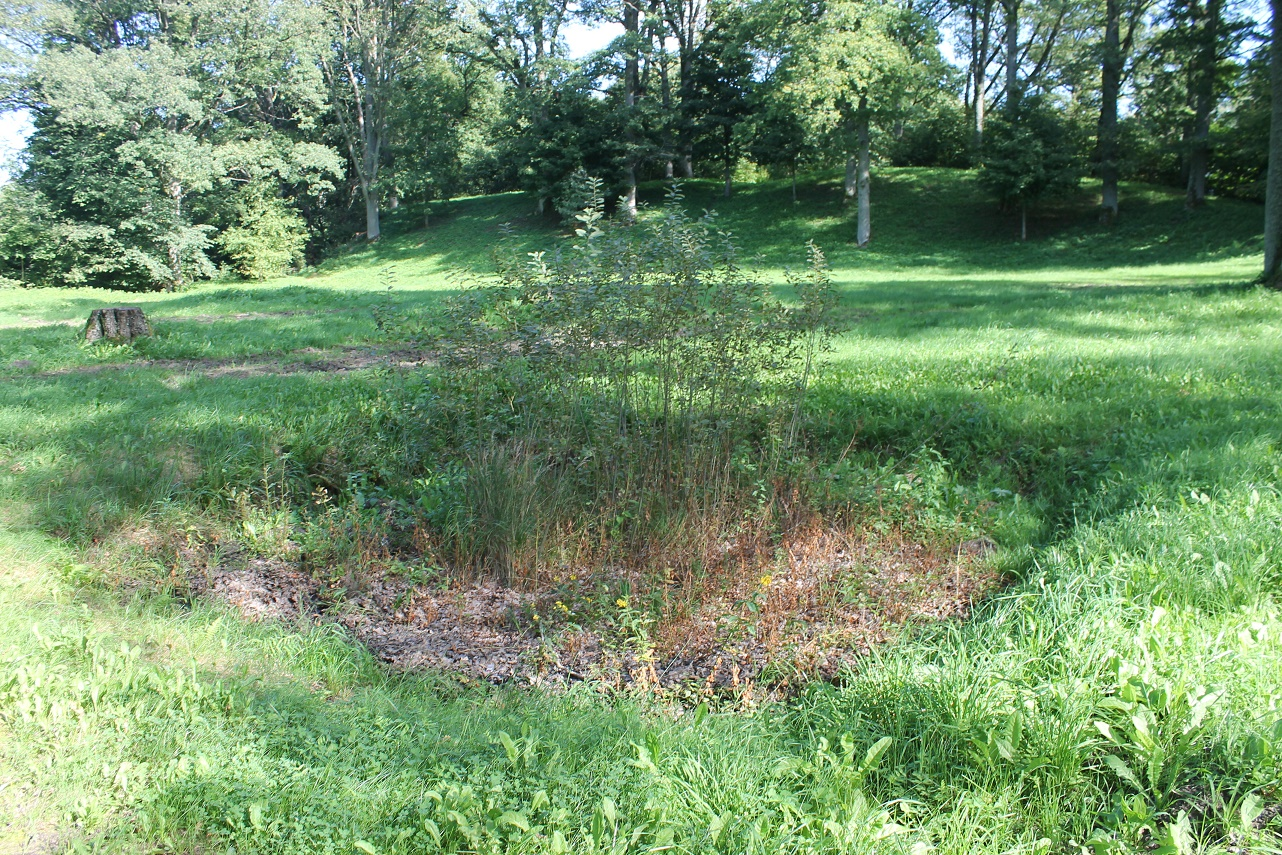 Apuolė Hillfort, Skuodas district, LithuaniaLietuvių: Apuolės piliakalnis, Skuodo rajonas, Lietuva